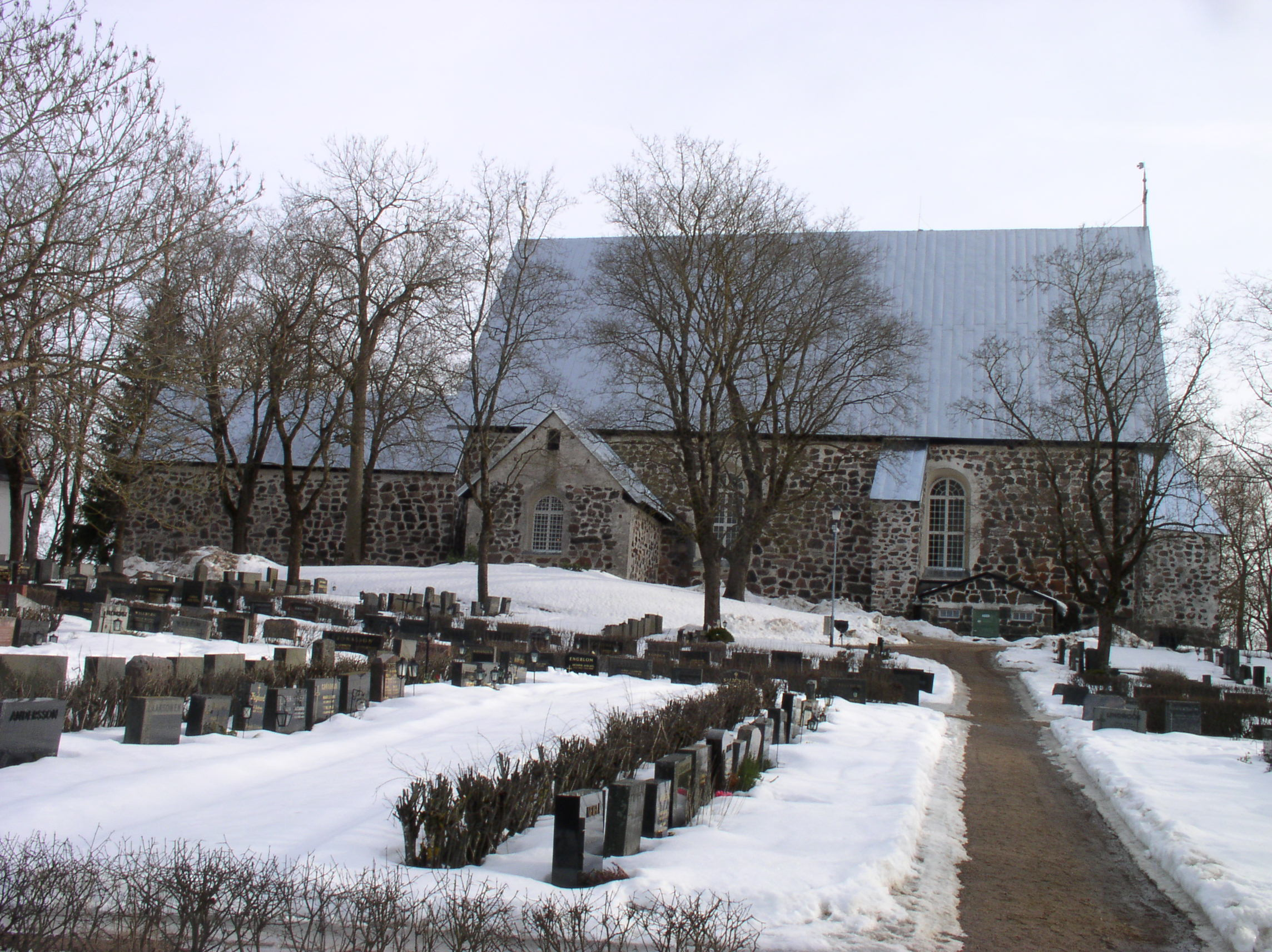 Pargas church in Väståboland (previously Pargas), Finland.